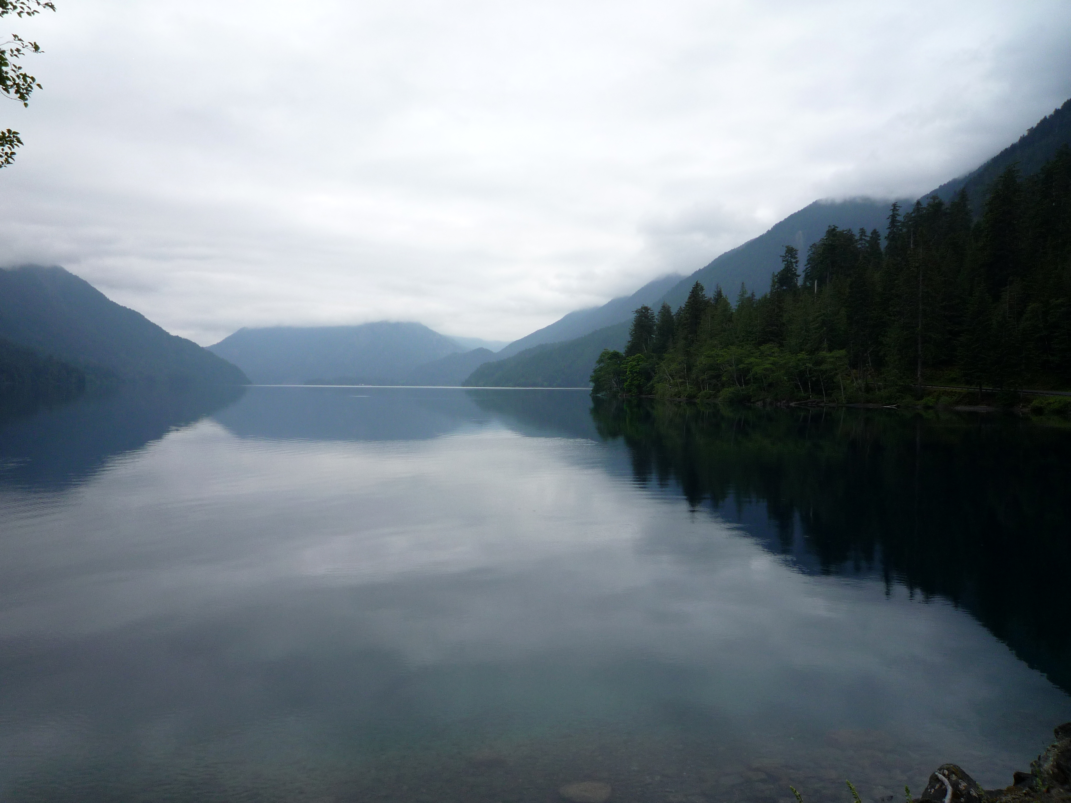 Shore of Lake Crescent, Washington, USA.